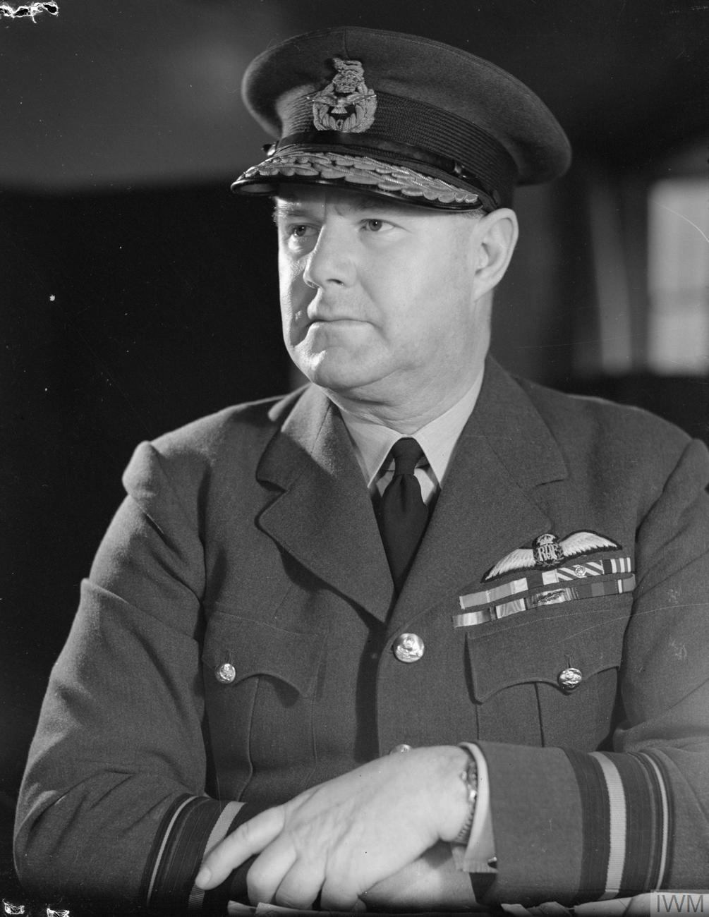 Royal Air Force Fighter Command, 1939-1945. Air Vice Marshal H W L Saunders, Air Officer Commanding No 11 Group, a formal portrait taken at Group Headquarters, Uxbridge, Middlesex.